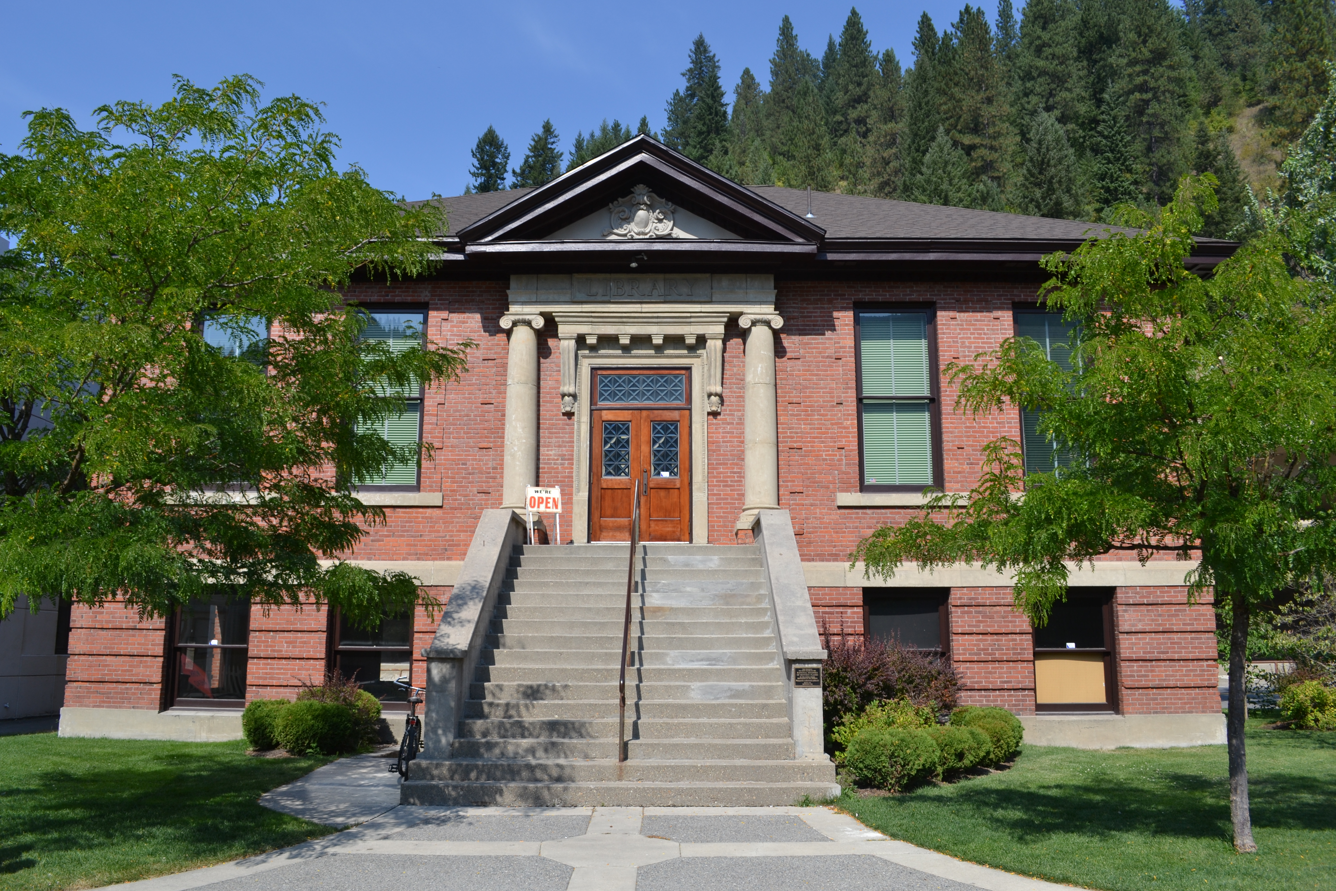 Opened 1911, Restored 1999